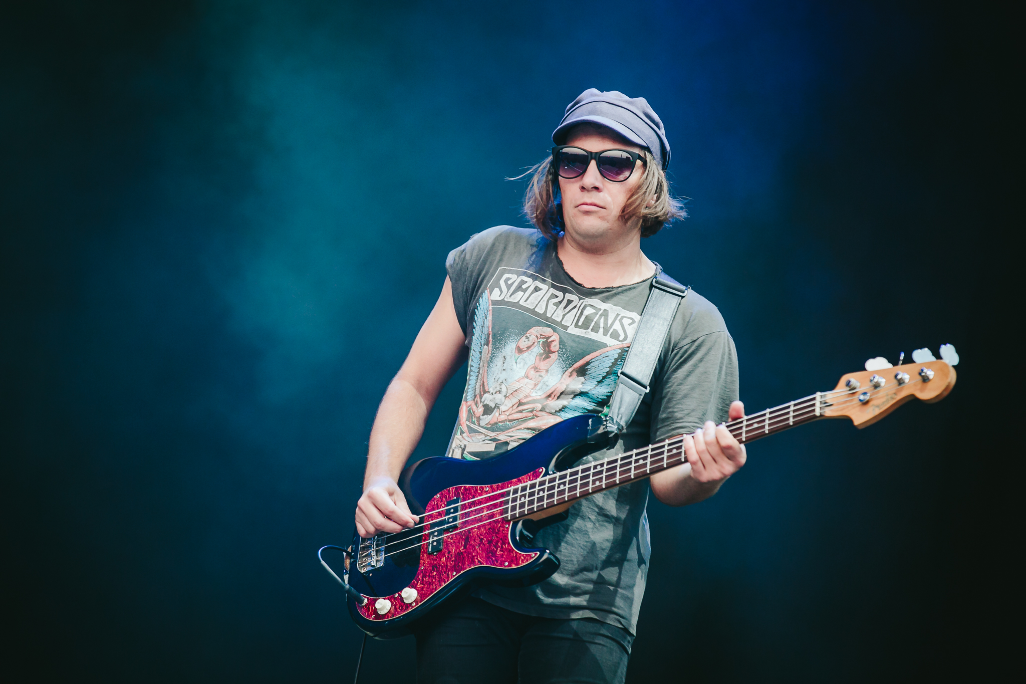 Wolfmother at Deichbrand Festival 2018